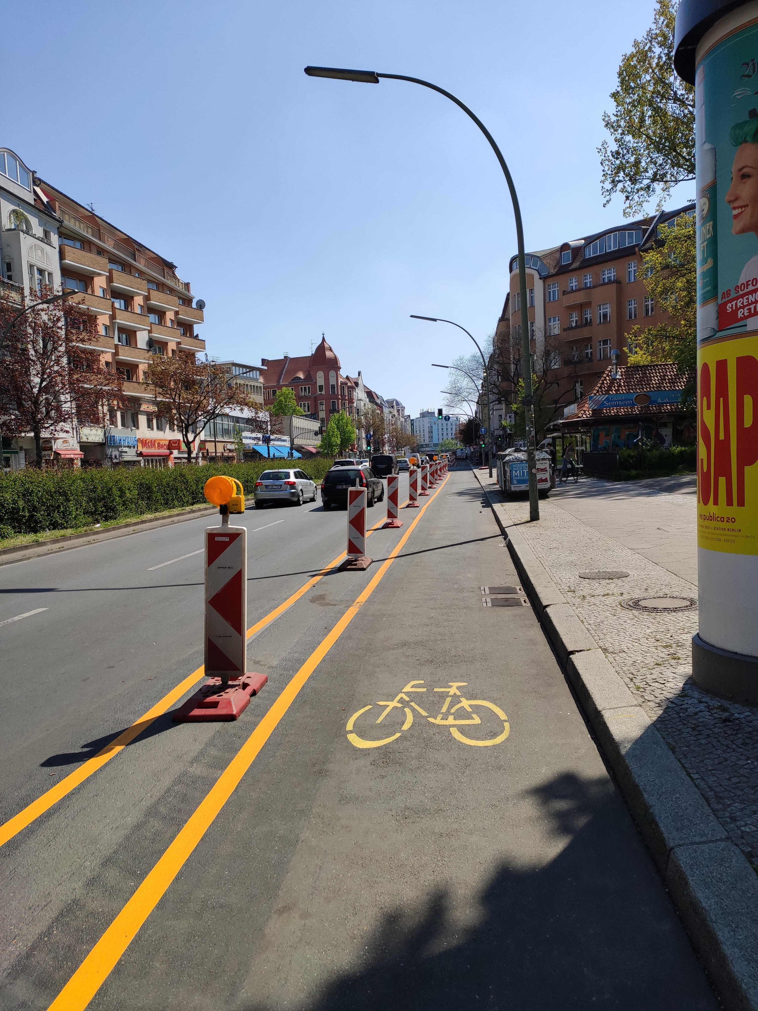 A pop up cycle lane initiated during the Covid19 pandemic in spring 2020 in Berlin